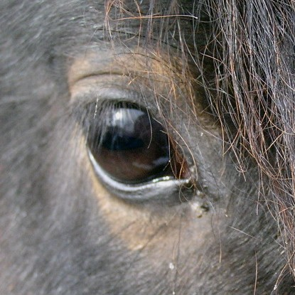 Eye of a bay horse, cropped square